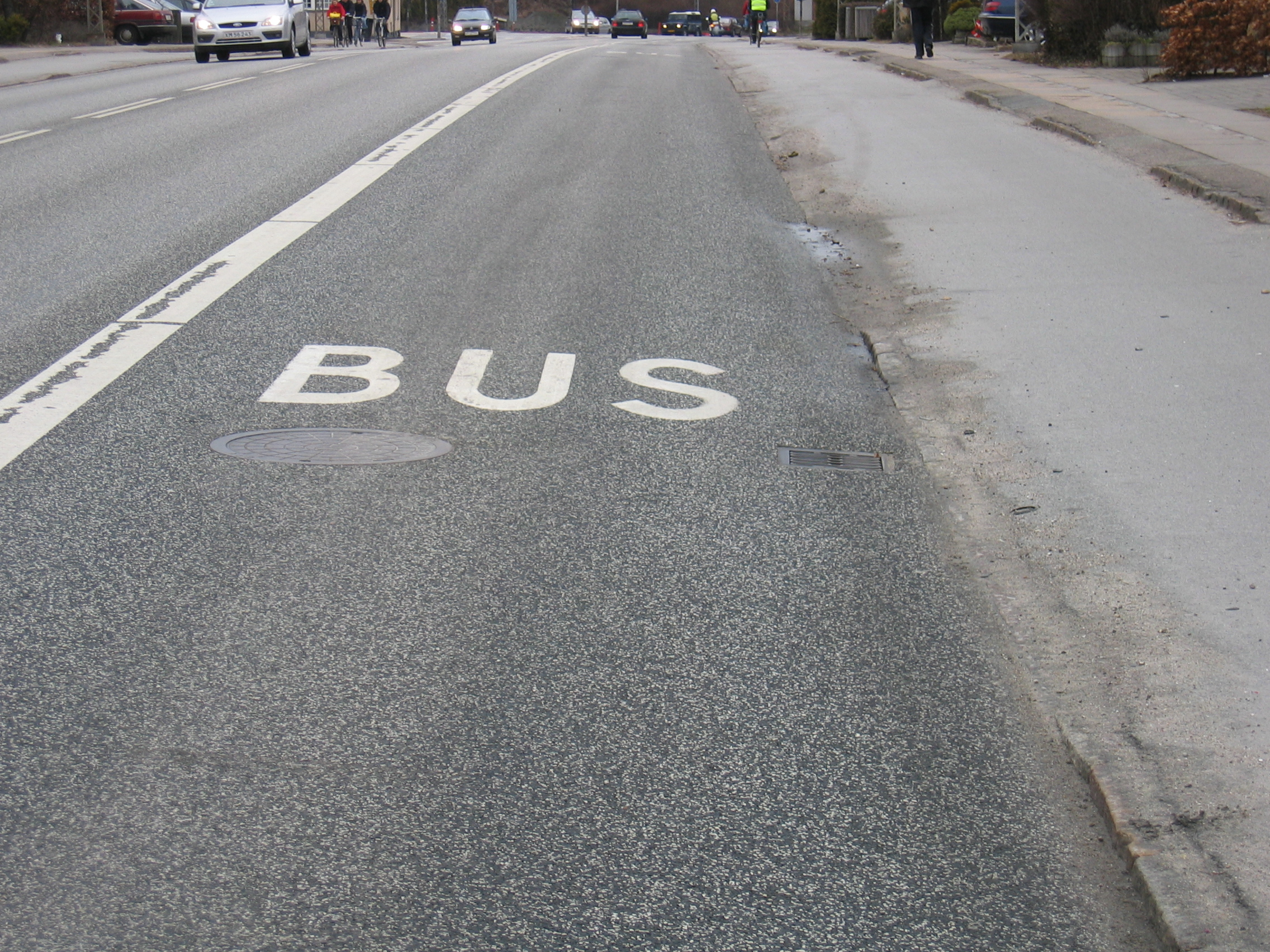 Bus lane on Buddingevej, Lyngby, Denmark